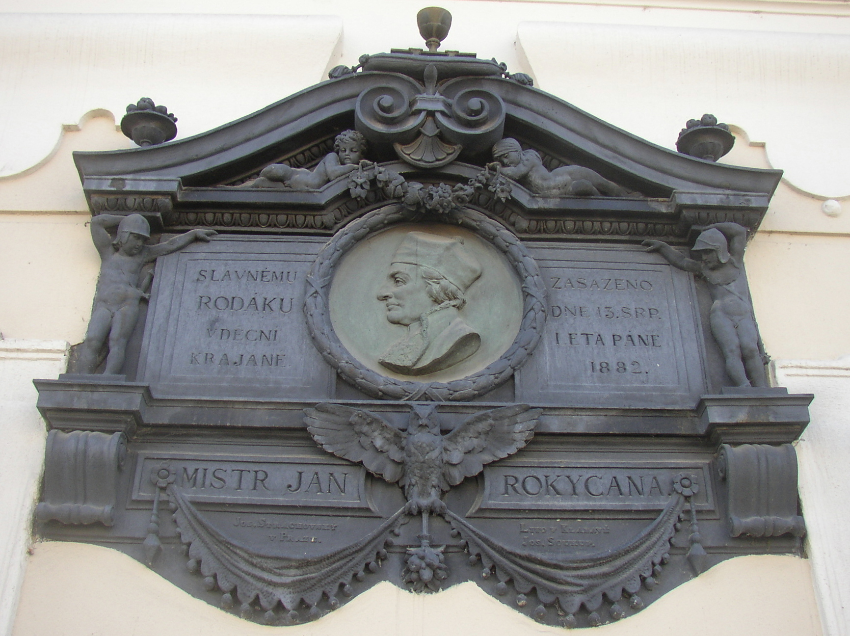 Memorial plaque of John of Rokycan, Hussite theologian and Archbishop of Prague on facade of town hall in his home town of Rokycany, Czech Republic.